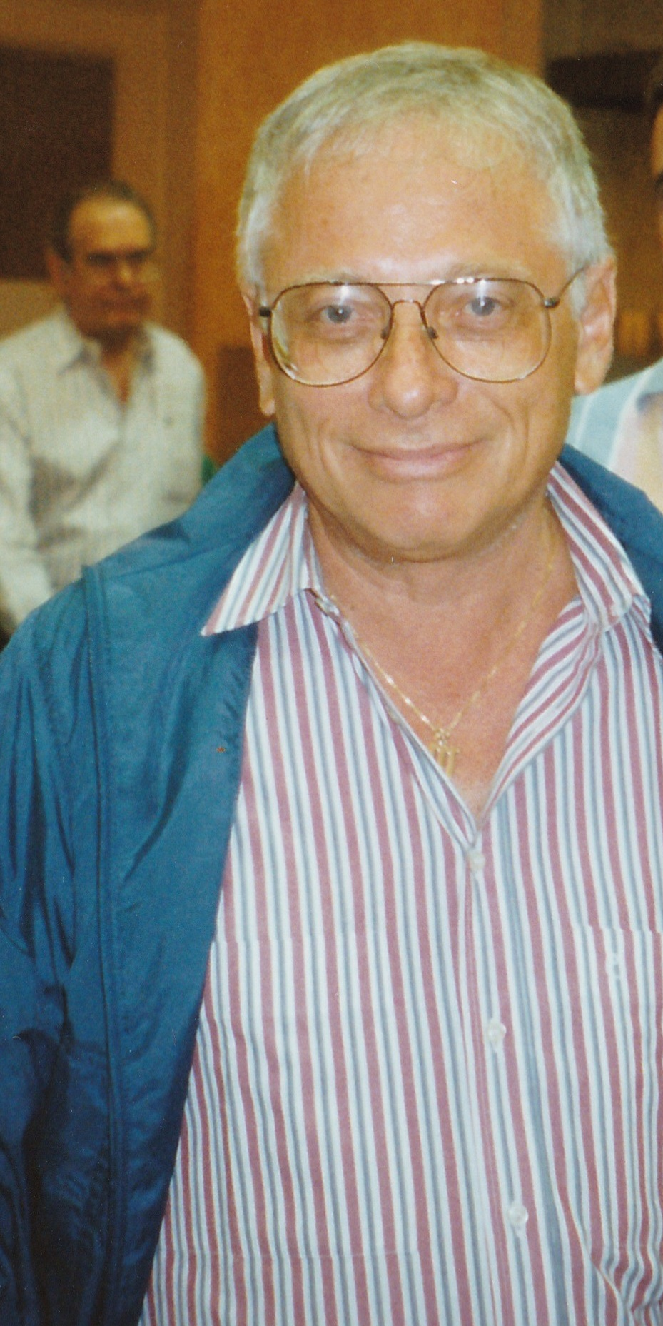 William (Billy) Eisenberg, American bridge and backgammon professional.